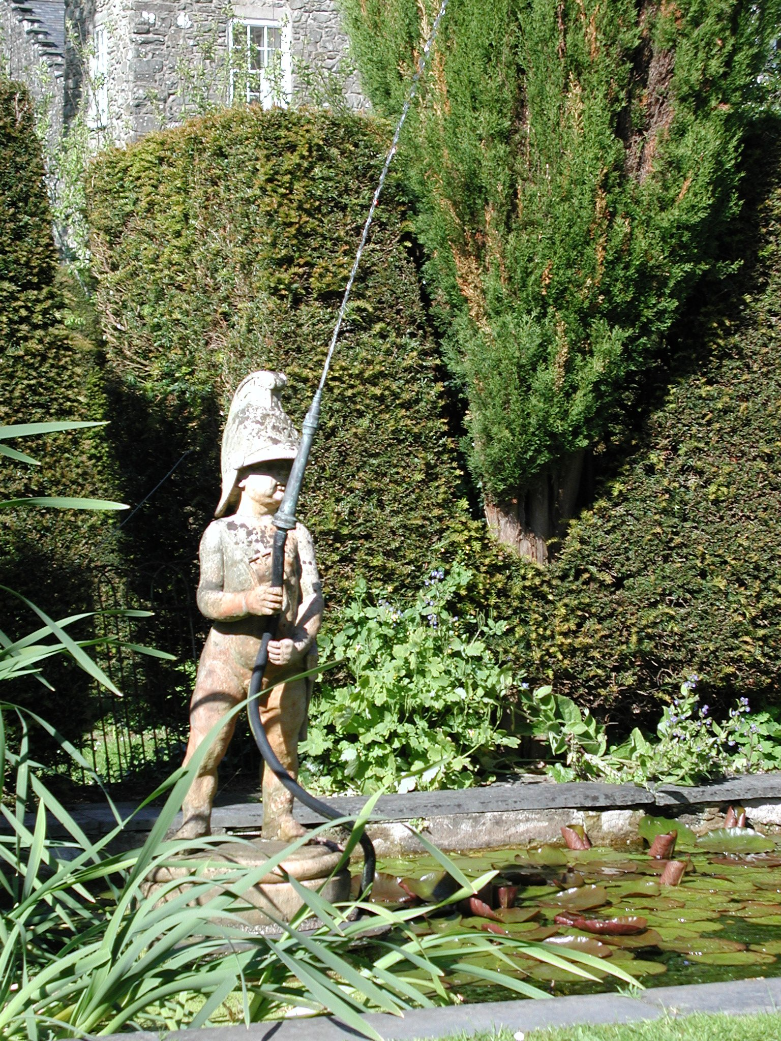 An amusing fountain at Plas Brondanw, North Wales, family home of Clough Williams-Ellis, creator of the Italianate village Portmeirion. Photographed by me 31 May 2005. Oosoom